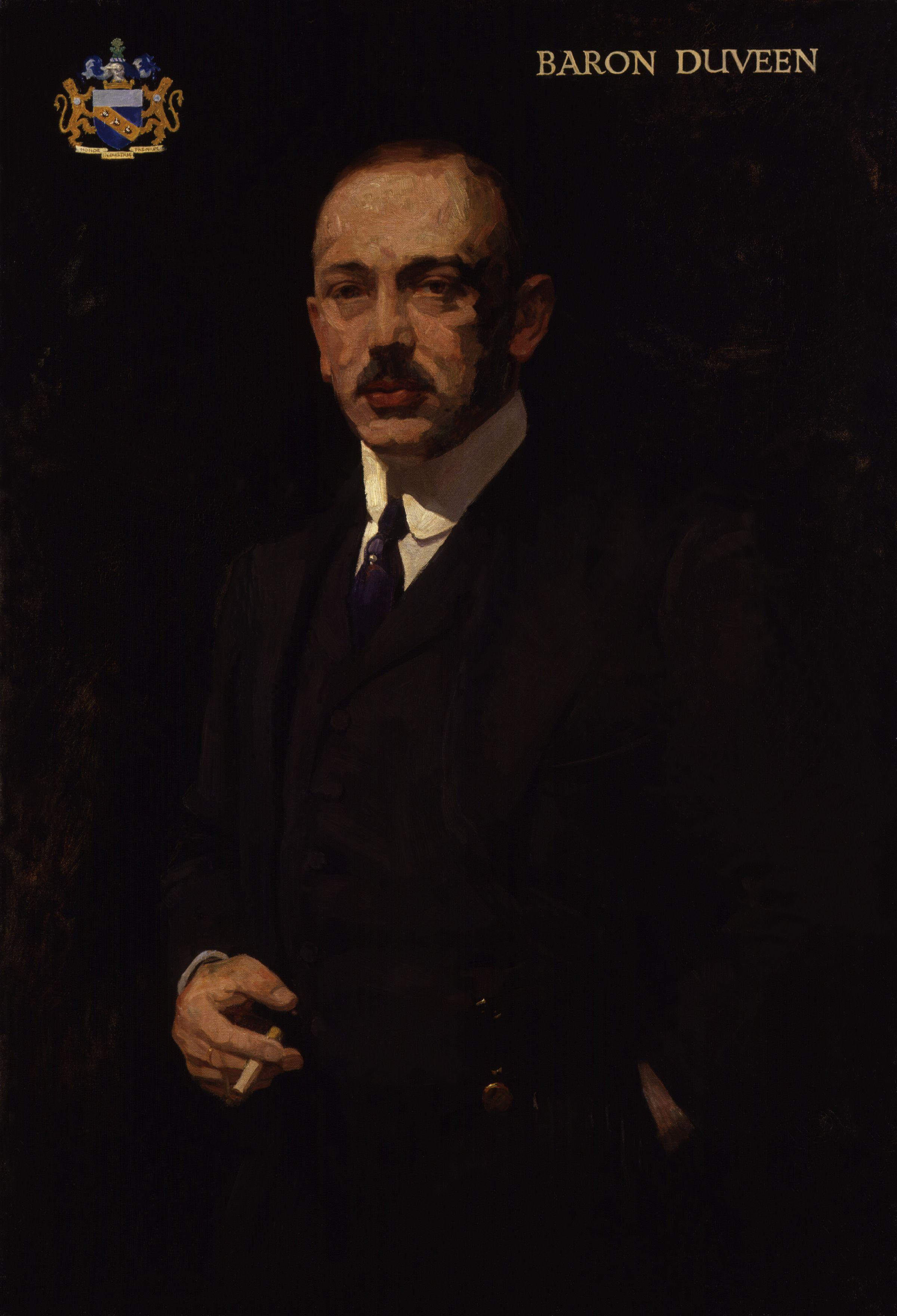 Joseph Duveen, Baron Duveen, by Isaac Israels (died 1934). All images in this batch have been confirmed as author died before 1939 according to the official death date listed by the NPG.